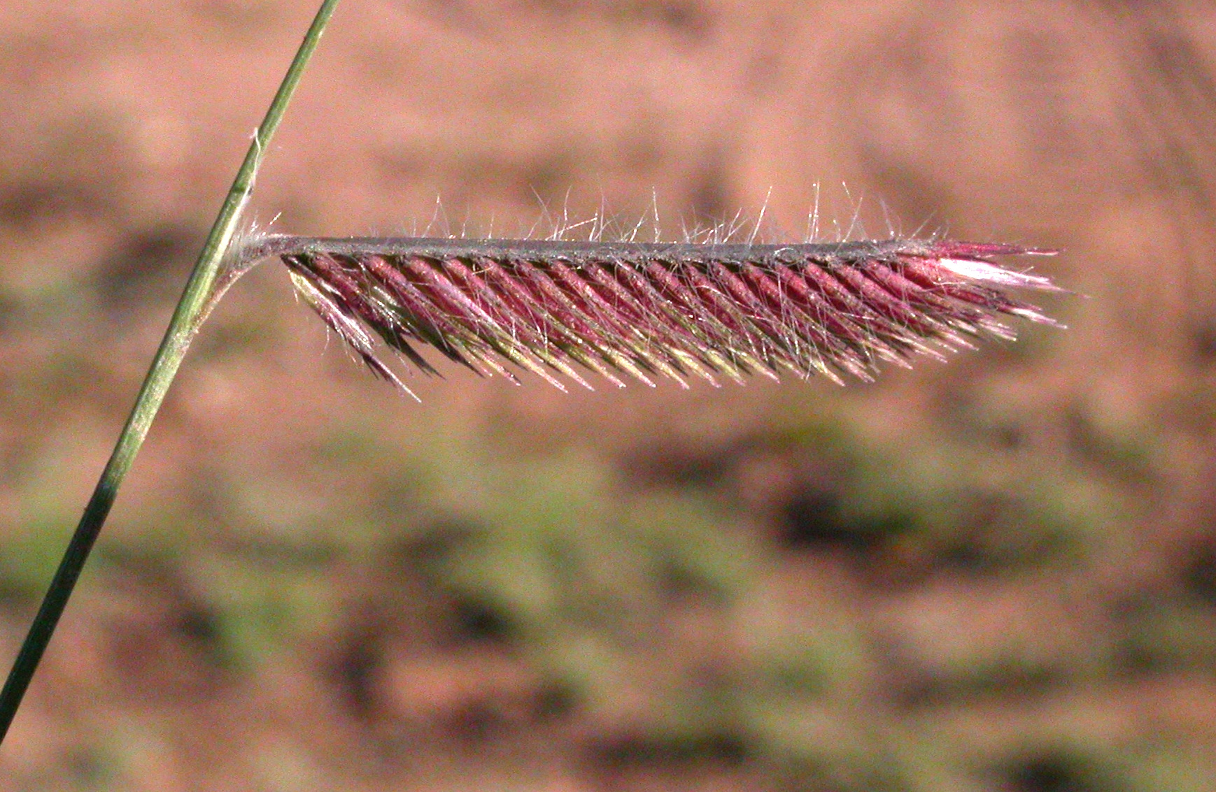 Bouteloua gracilis. Northeast of Valle, Arizona.